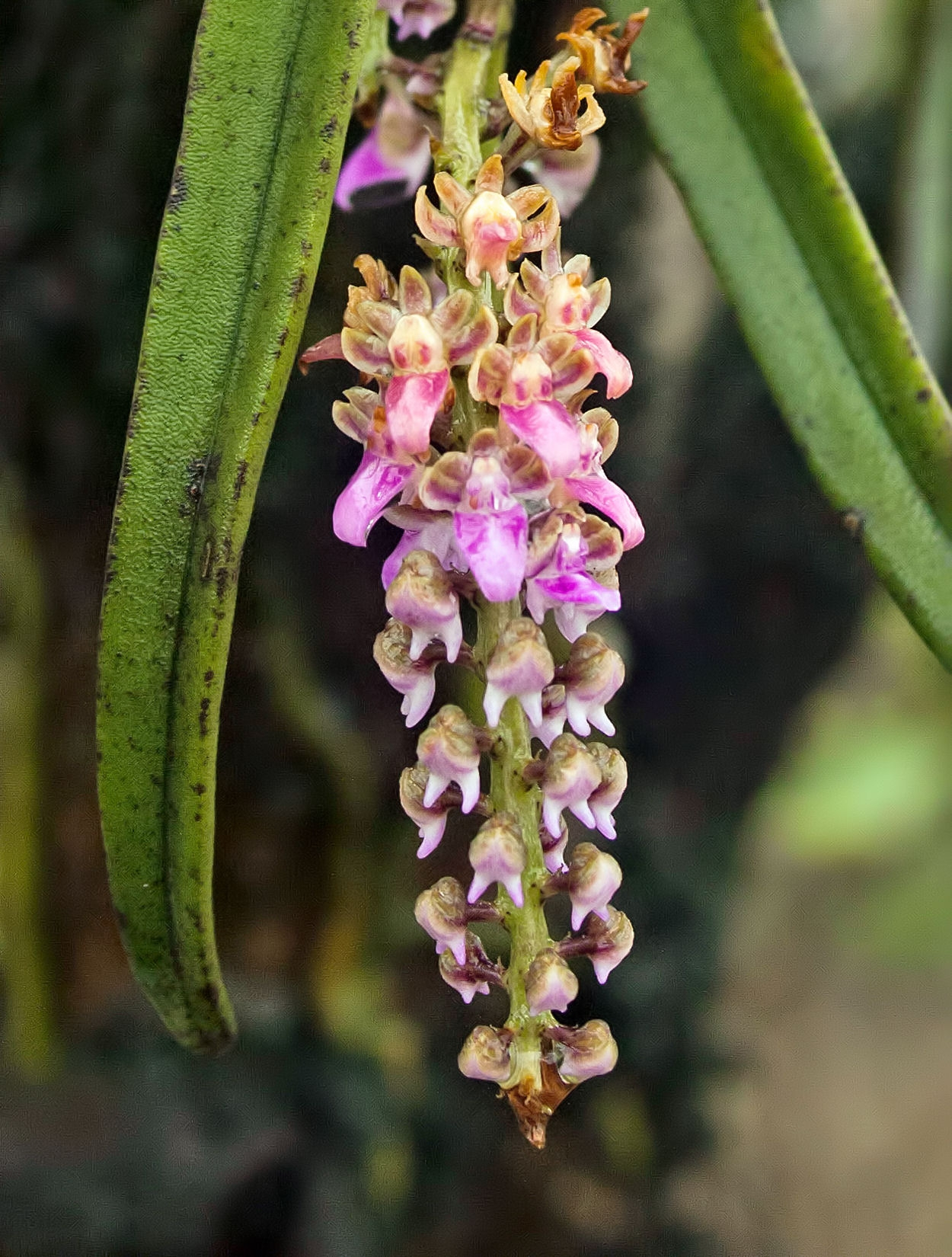 Diplocentrum recurvum, epiphytic orchid of South India